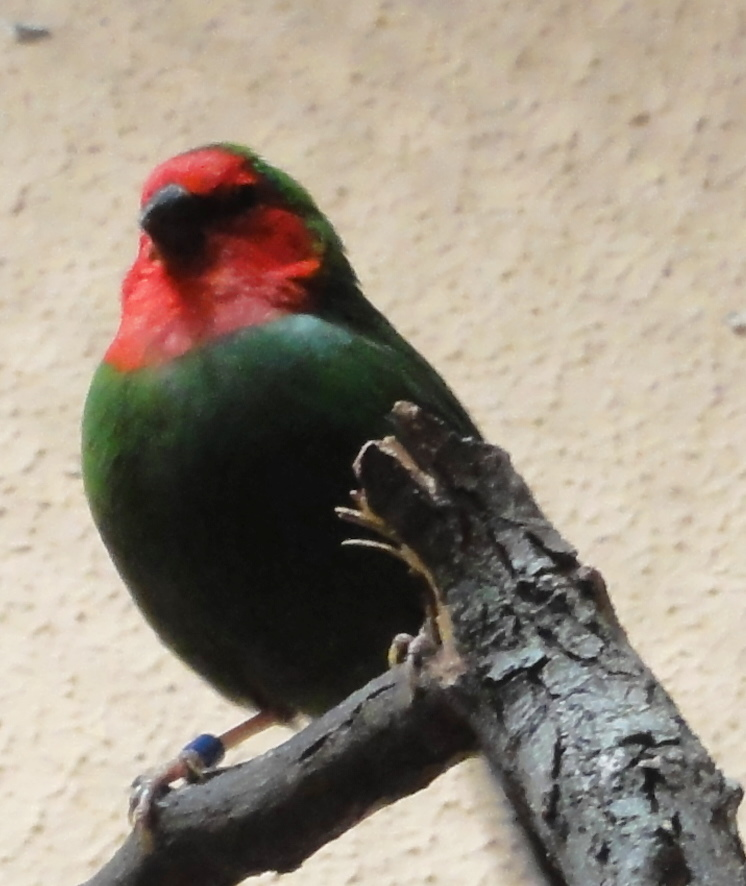 Erythrura psittacea